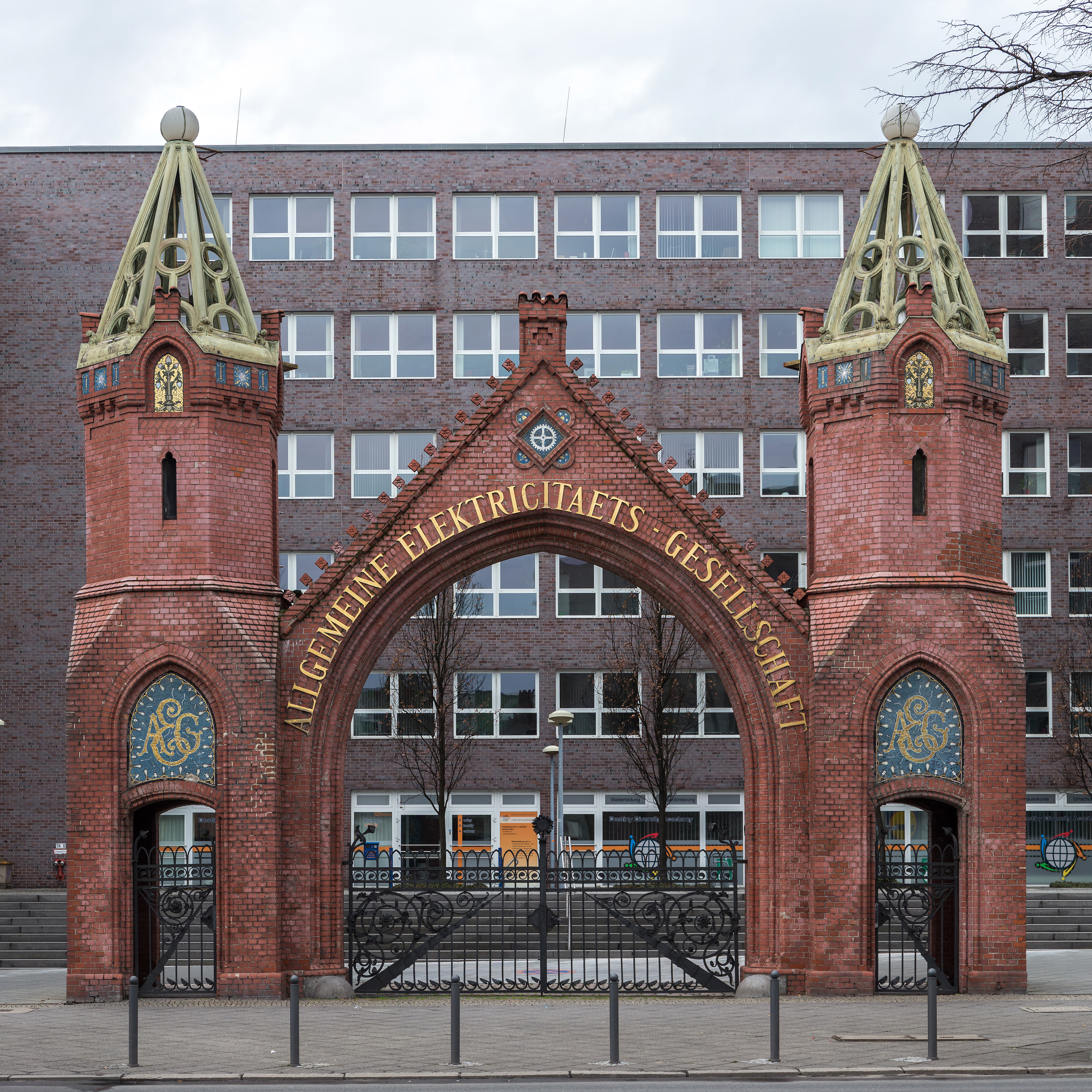 Gate of the former AEG premises at Brunnenstrasse in Berlin-Wedding. The gate was built in the years 1896/1897 according to plans of Franz Schwechten.